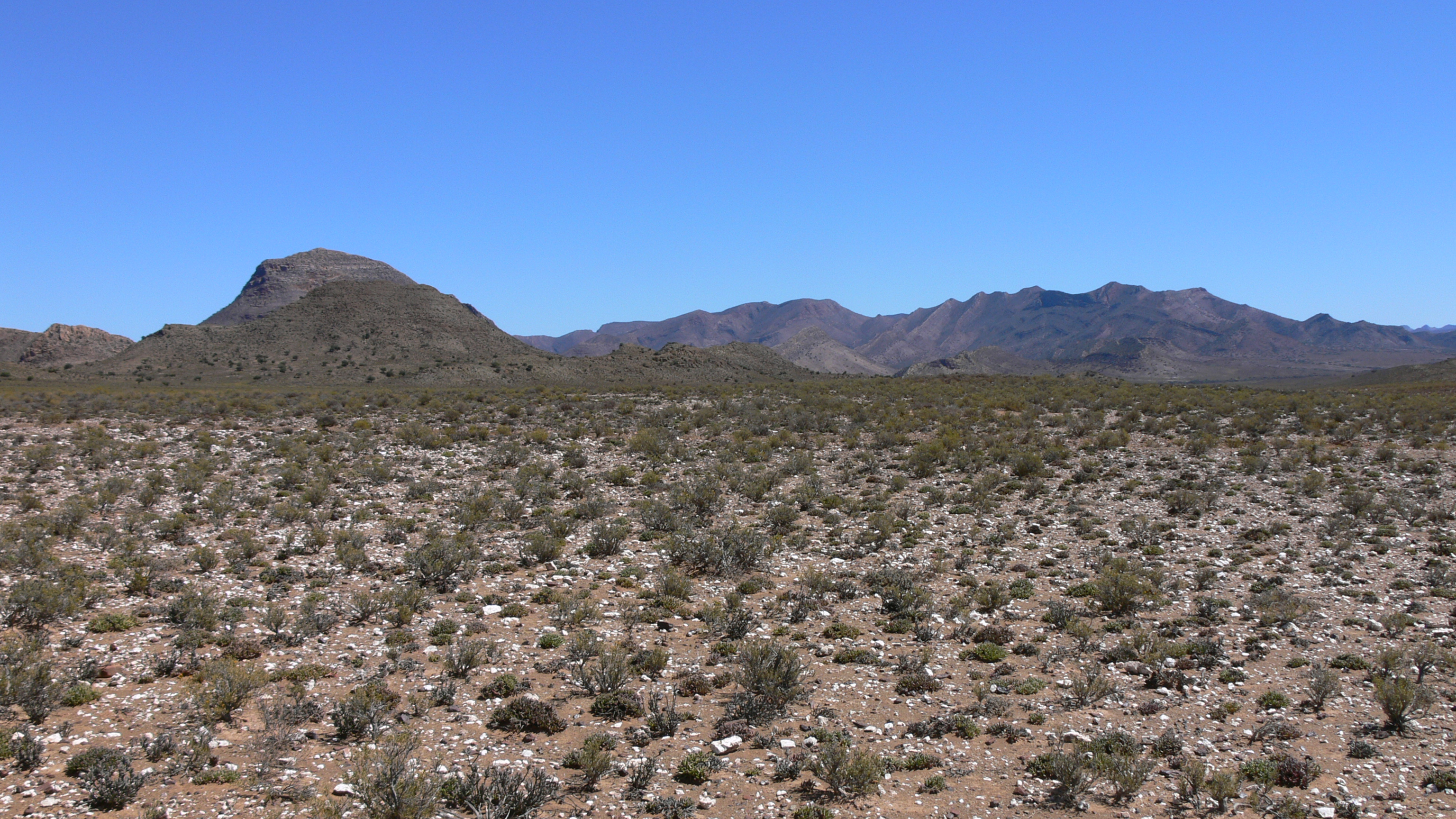 Landscape Anysberg Nature Reserve, Kannaland Local Municipality, Western Cape, South Africa